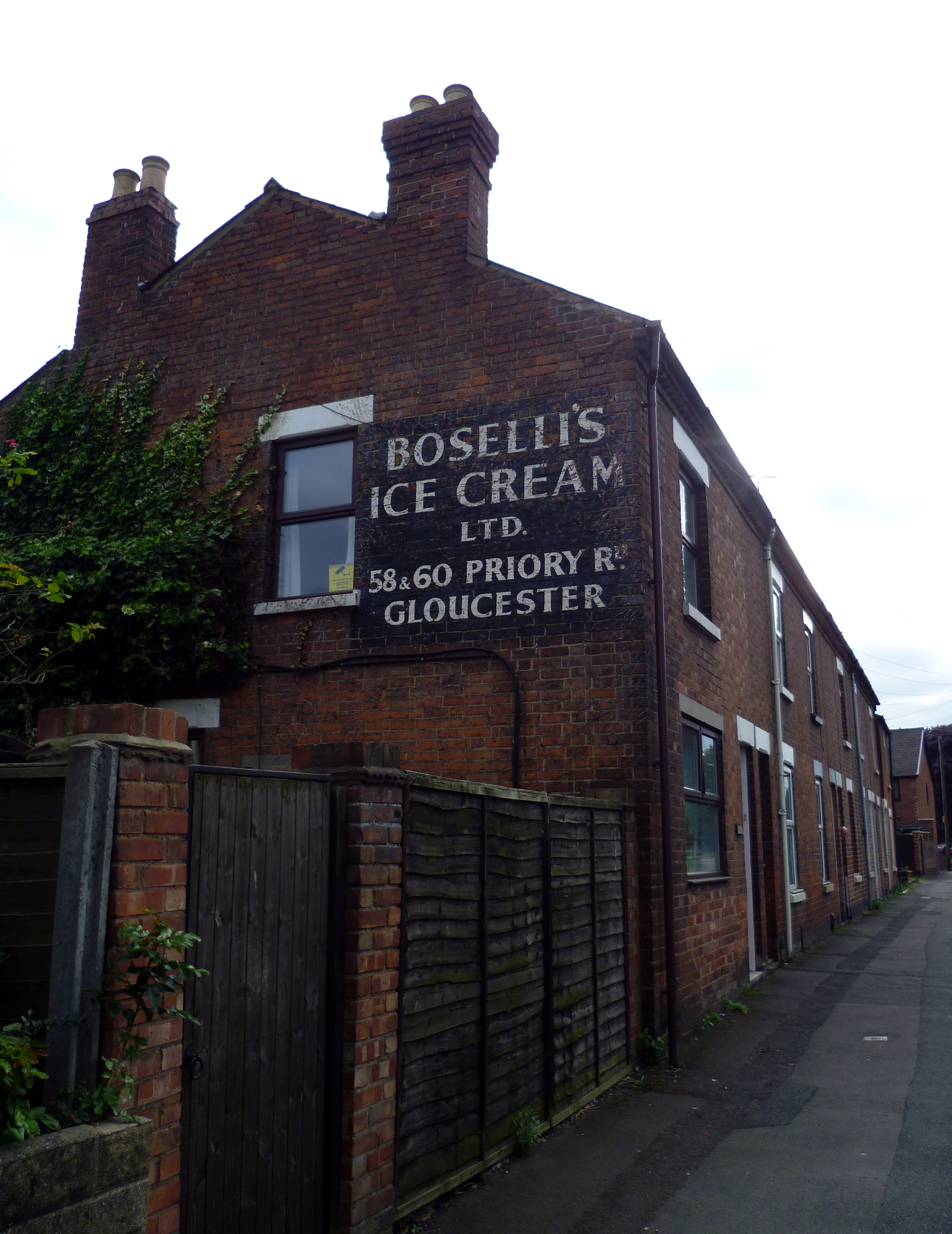 Sign for Boselli's Ice Cream, Priory Road, Gloucester. Sign on the wall of a house now in St. Oswald's Road.